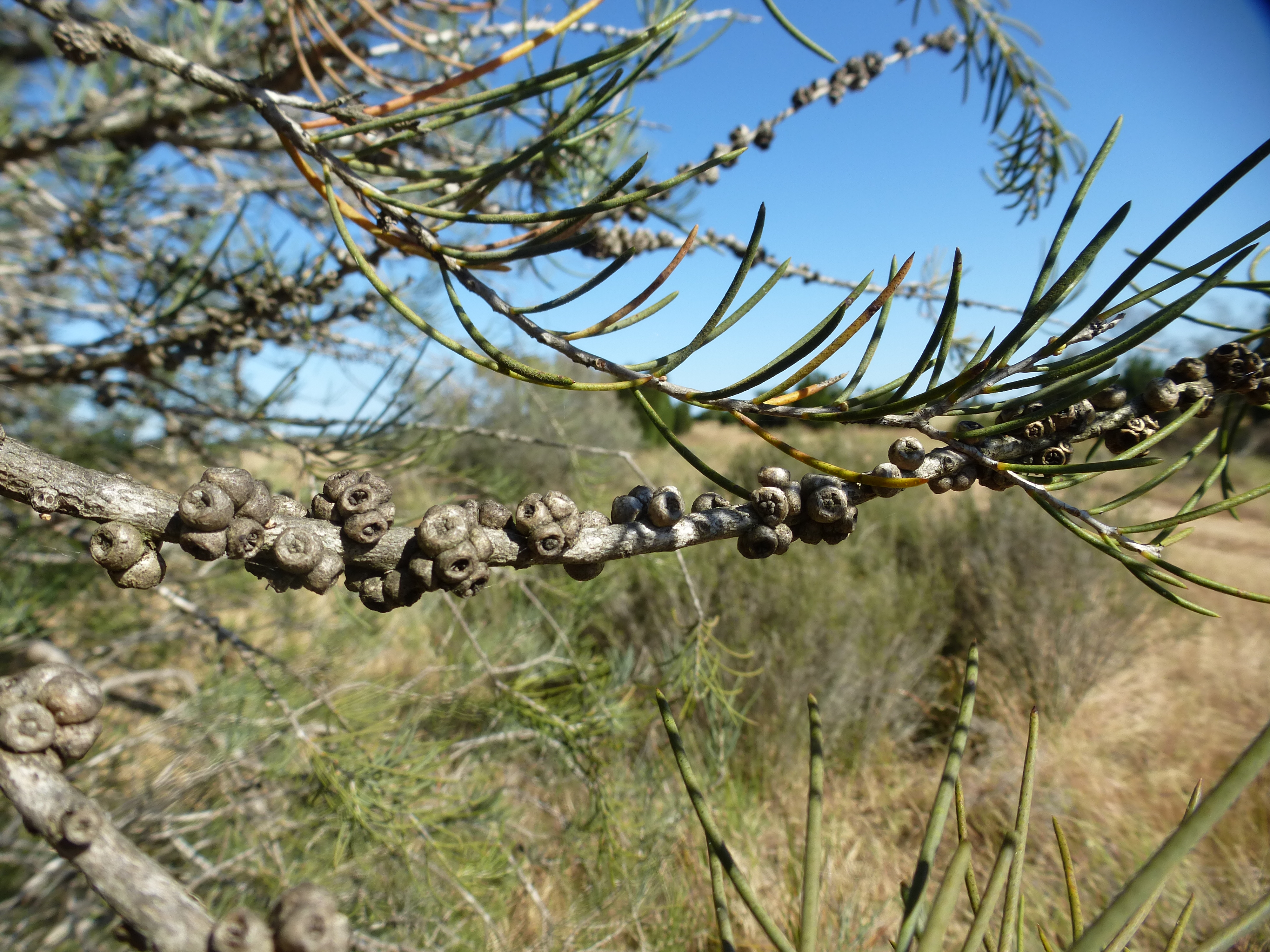 Melaleuca teretifolia growing along Nine Mile Swamp Road near Moore River National Park